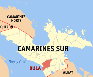 Map of Camarines Sur showing the location of Bula